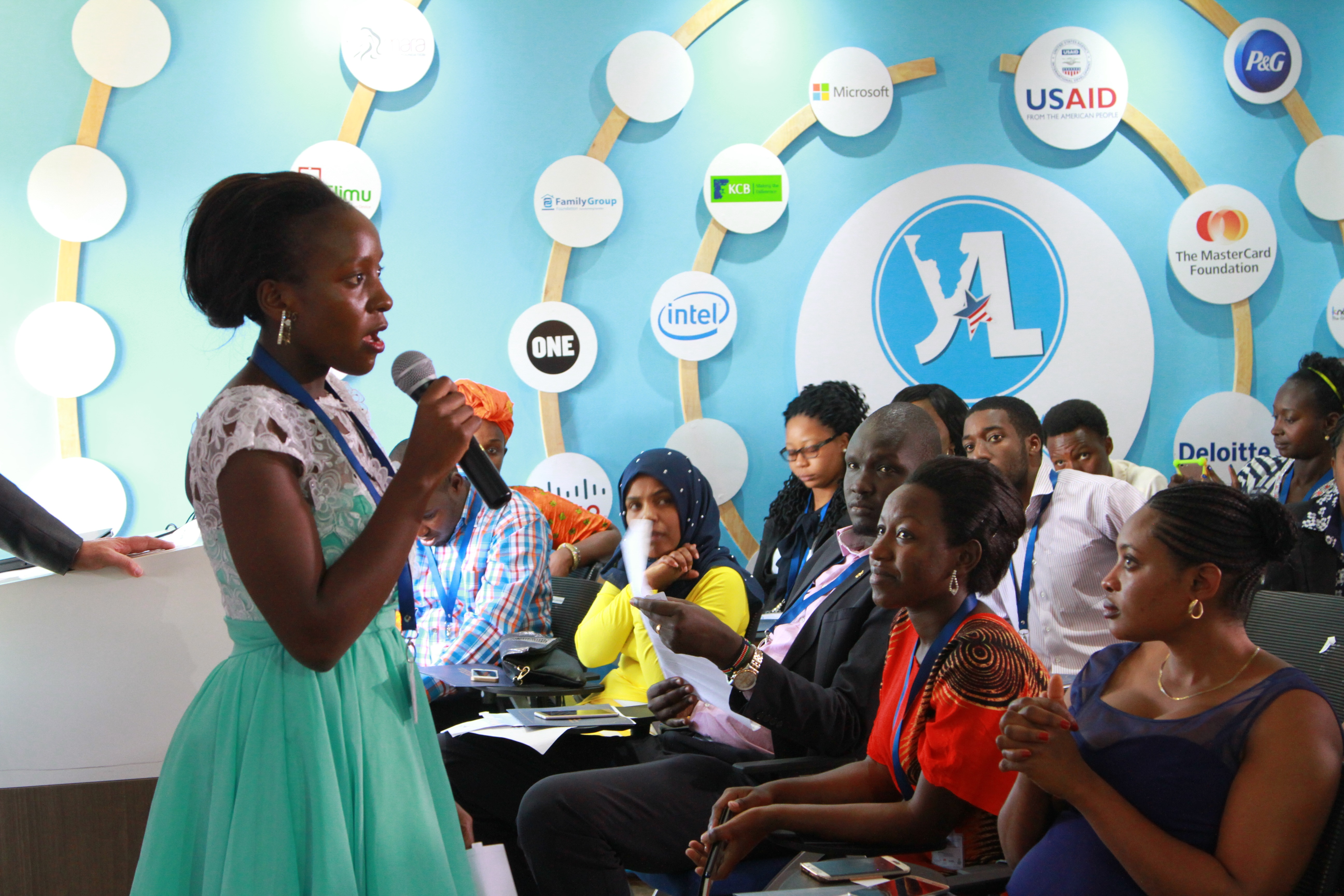 Building youth leaders: Through the Young African Leaders Initiative (YALI), USAID builds leadership skills among East Africans age 18-35 across 14 countries. The program also facilitates networking opportunities for these young leaders in entrepreneurship, civil society, private and the public sector. Photo Credit: Eric Onyiego/ USAID Regional @USAIDEastAfrica